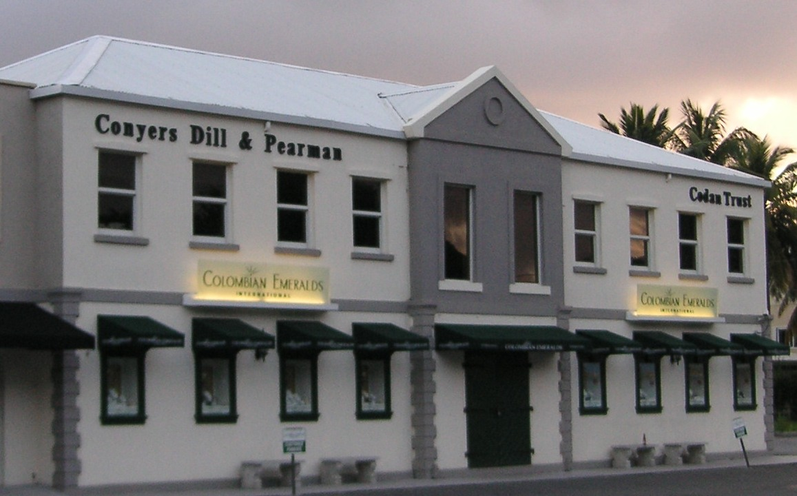 Photograph of the BVI office of Conyers Dill & Pearman